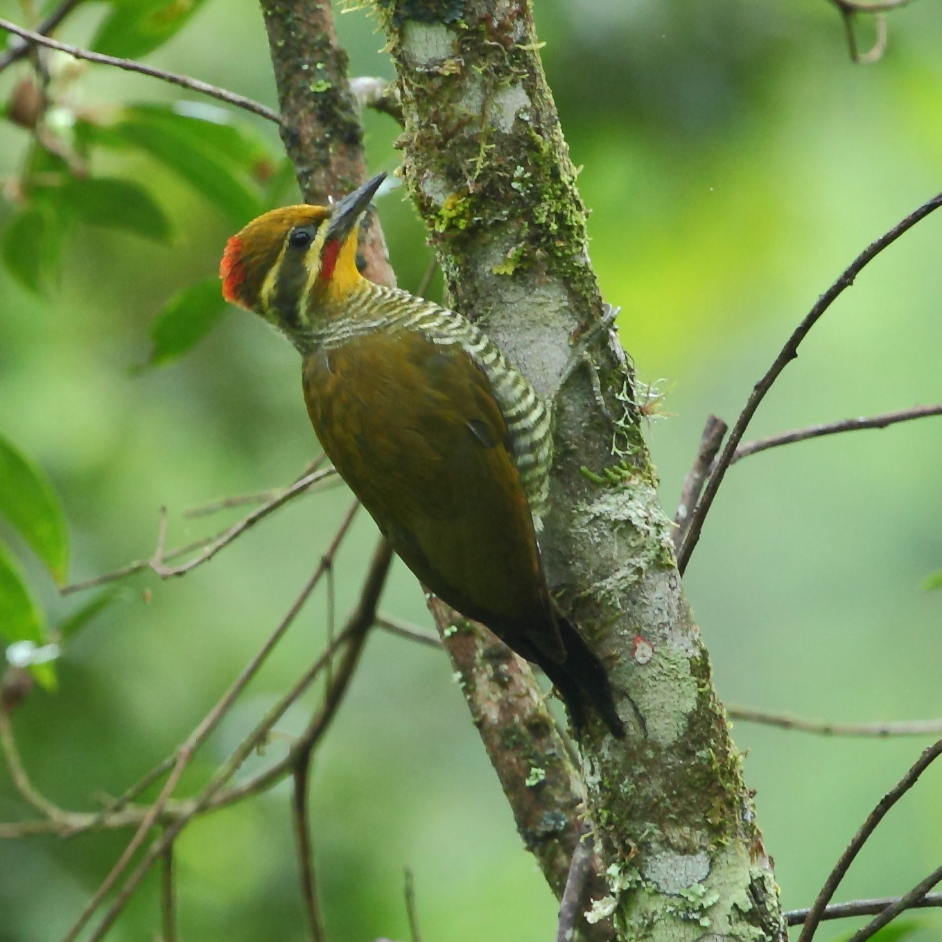 Yellow-browed Woodpecker female at São Luiz do Paraitinga - SP -Brazil